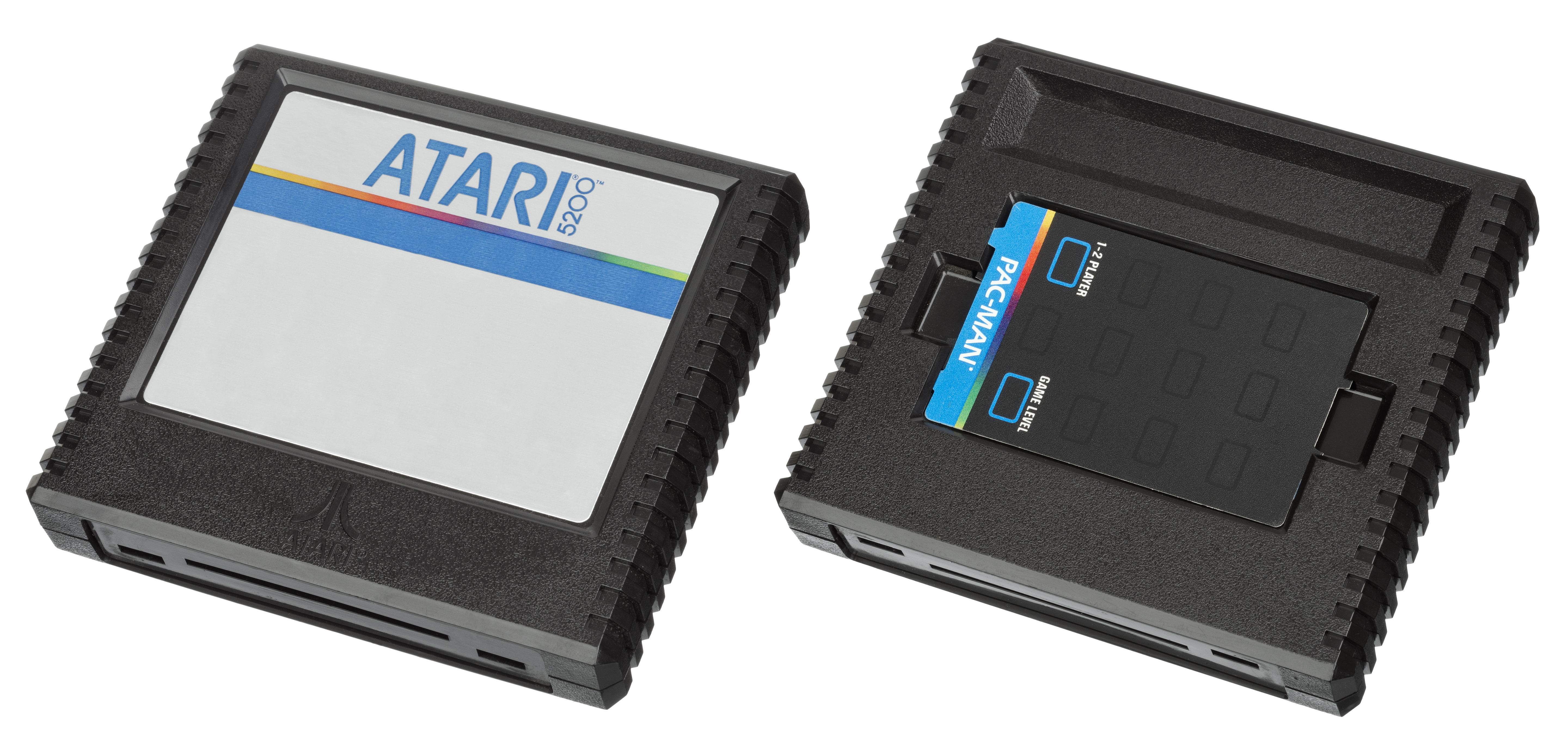 A game cartridge for the Atari 5200 console with the game art removed. The 5200 was Atari's follow-up to the very successful 2600. A larger and more powerful console, it was based on the Atari 8-bit 400/800 computer line. It did not fare well in the market, however, due to Atari's and the gaming market's collapse in 1983. The 5200's cartridge also has a spot in the back that holds game controller overlays.